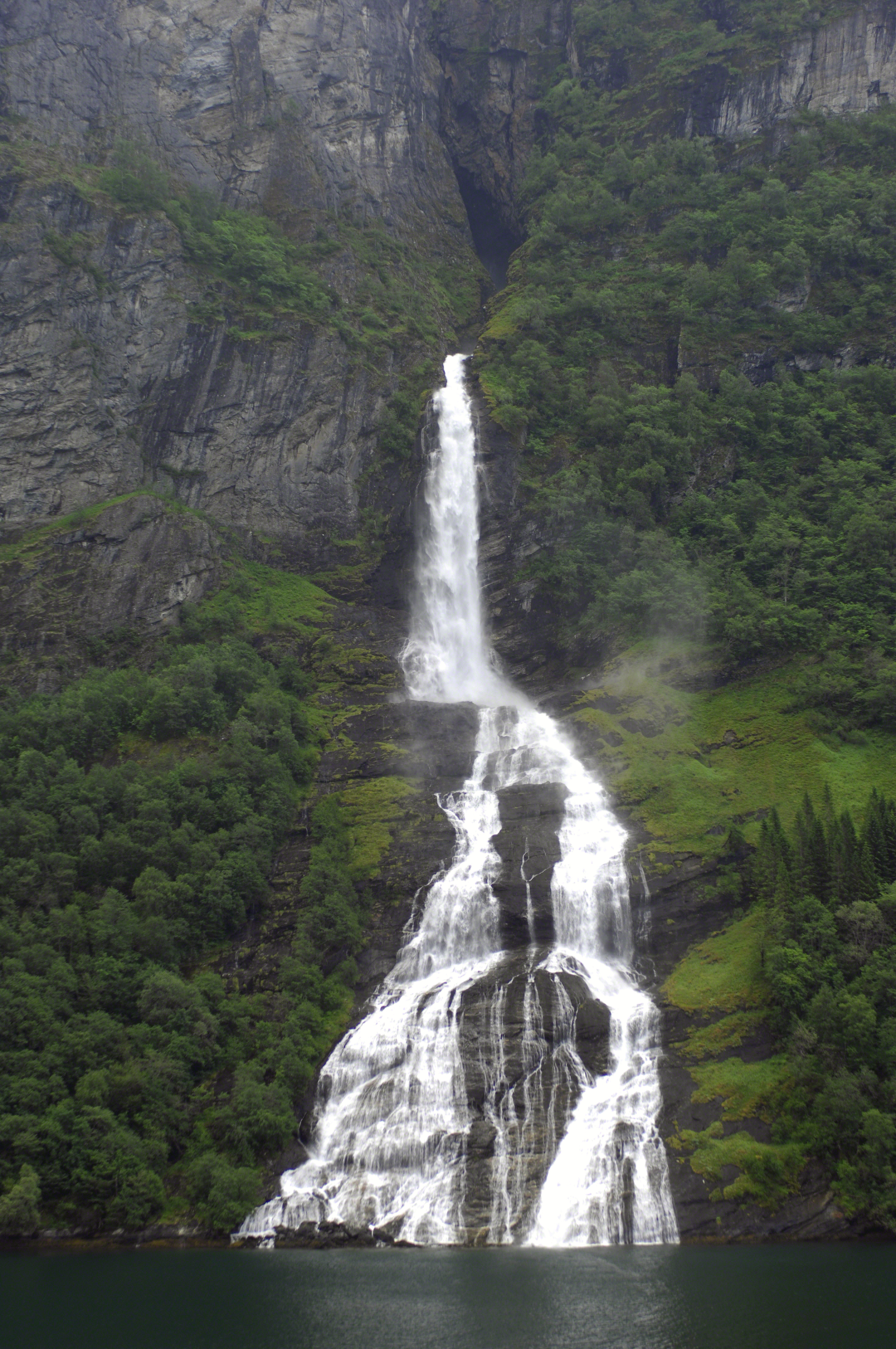 Taken from cruise ship in the Geirangerfjord